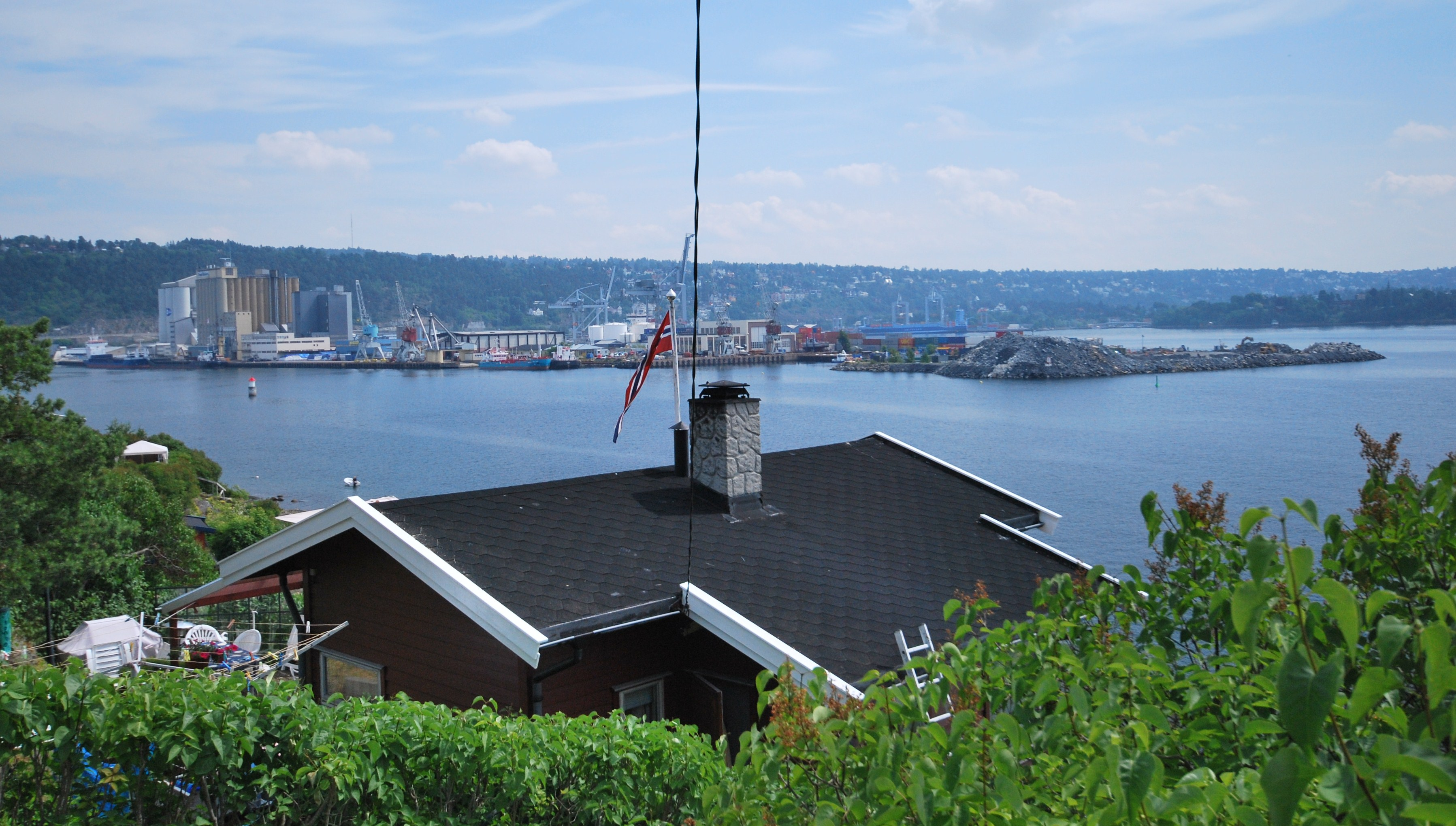 Sjursøya (port for petro products), Oslo, seen from Bleikøya